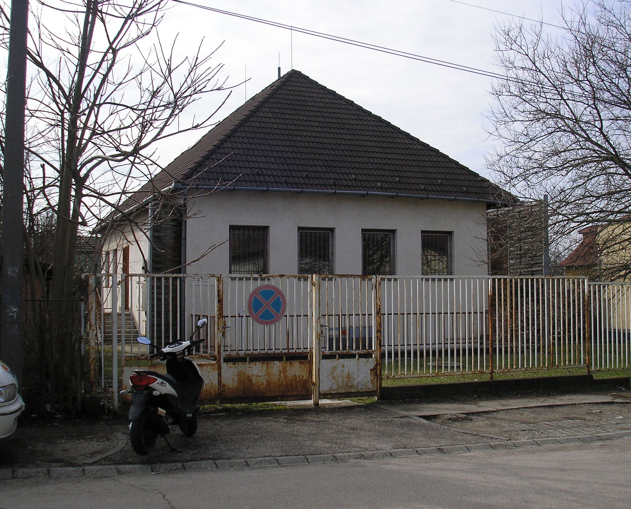 Building is built in the area of the former (demolished) cinema "Kossuth" or "Corso" in Budapest XVI. disctrict. View from Mária street.